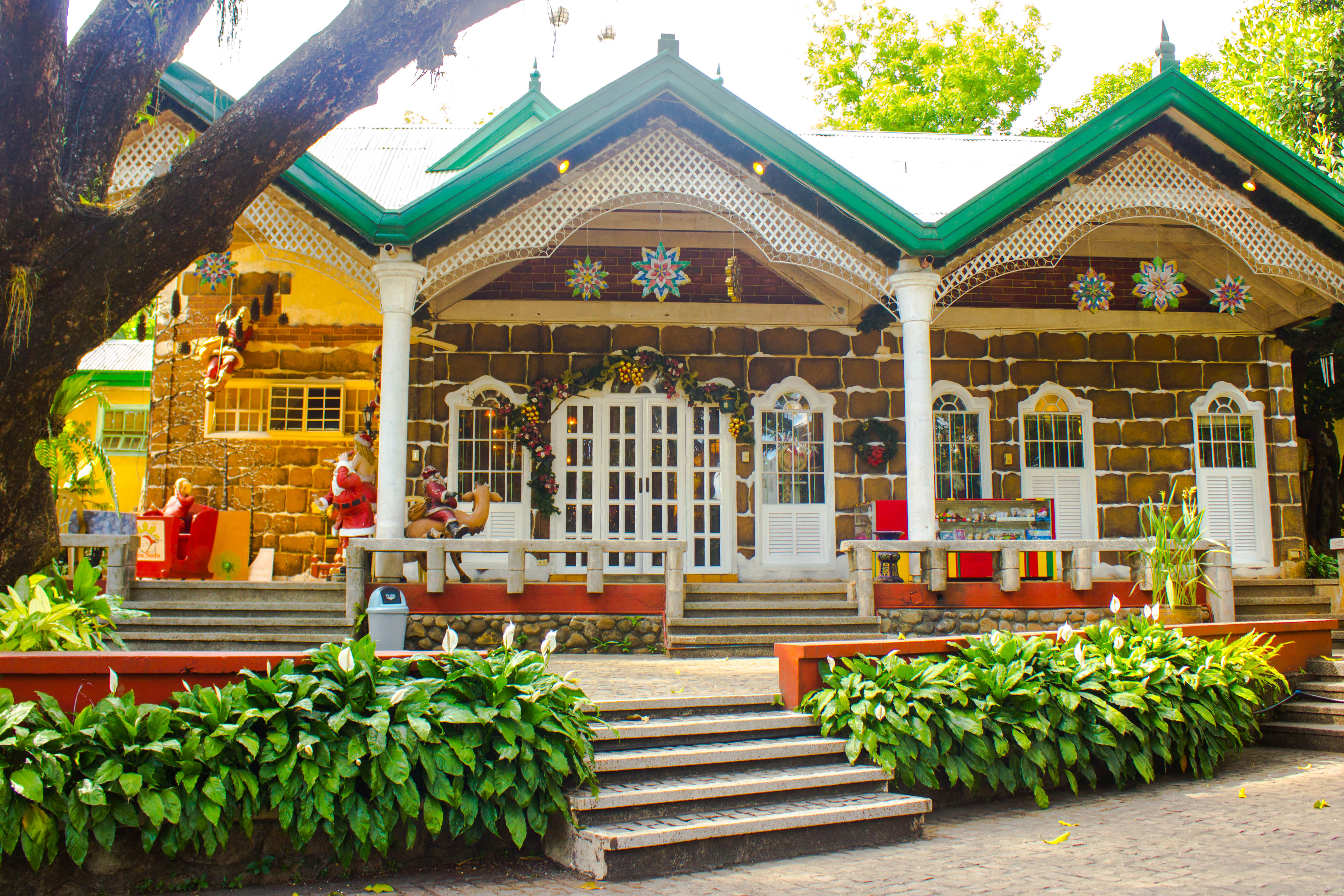 Casa Santa Museum facade